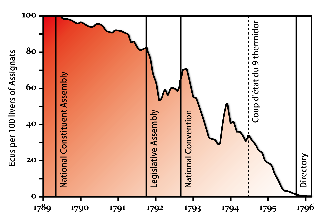 EXCHANGE RATE IN BASEL, JANUARY 1789 TO MARCH 1796. Sources : Le marché des changes de Paris à la fin du XVIIIe siècle (1778-1800) avec des graphiques et le relevé des cours. (1937)